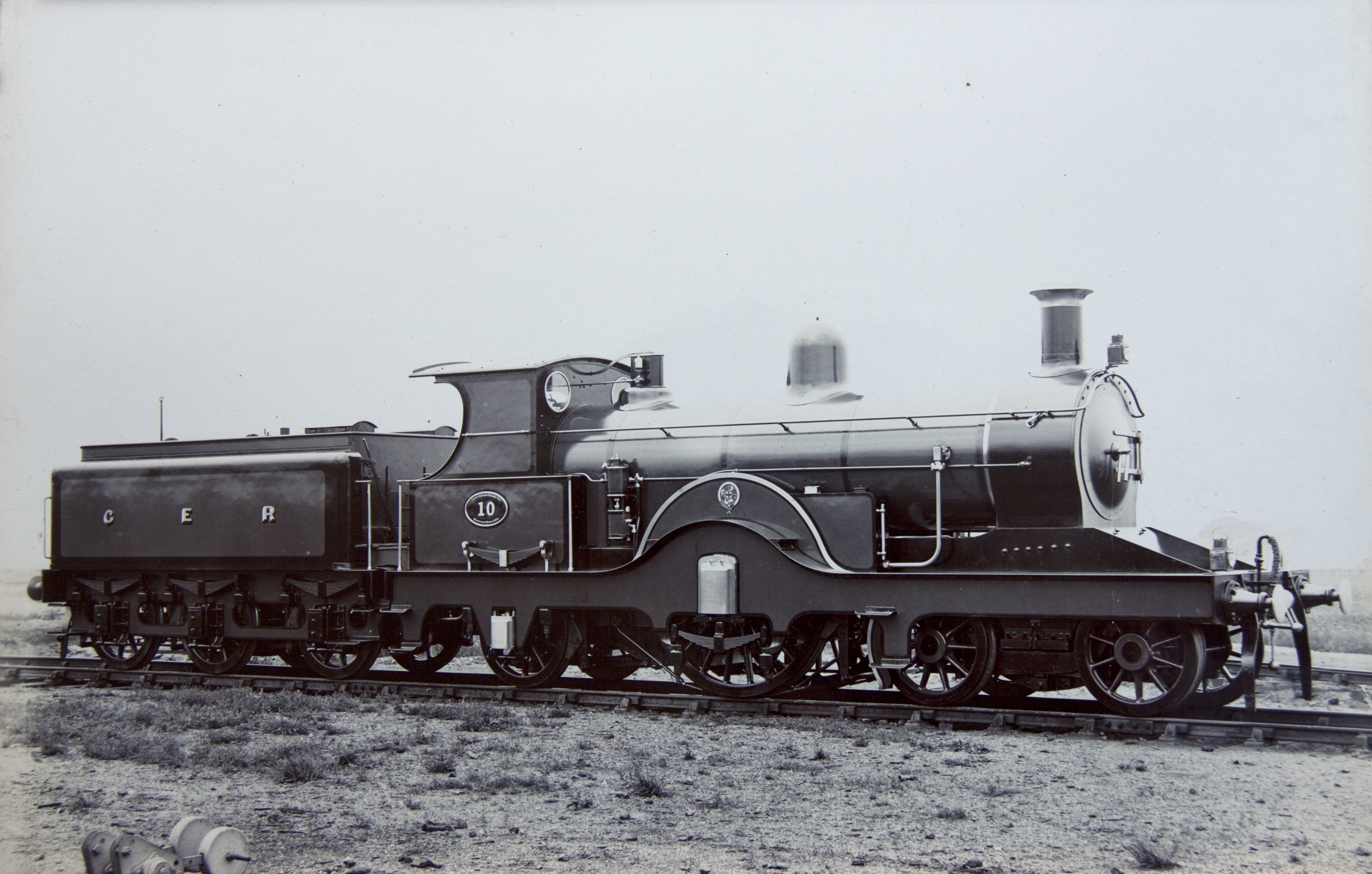 The ten P43 class 4-2-2s were the GER's contribution to the 'Indian Summer' of the single-wheeler, following the perfection of steam sanding apparatus. Their design was largely due to Frederick Russell, who became Head of the Locomotive Design Section of the Stratford Drawing Office in 1898. The design was totally non-standard, and clearly based upon the 4-2-2s of the Midland and the Great Western Railways, with double frames for the driving and carrying axles. The engines were oil burners, and the first to have the well-known 'watercart' type tenders. The P43s did not last long on front-line express work, being displaced in 1901 by the new Claud Hamilton 4-4-0s. They were converted to coal burning, and their tenders exchanged with standard S23 tenders on ten of the T19 class 2-4-0s. They were then 'put out to grass' on the GN&GE Joint Line, and scrapped in 1907-1910. This photo was taken from an old original photo we came across while helping to clear the house of a deceased friend. I have uploaded it to Flickr in the hope that it might be interesting to steam enthusiasts.